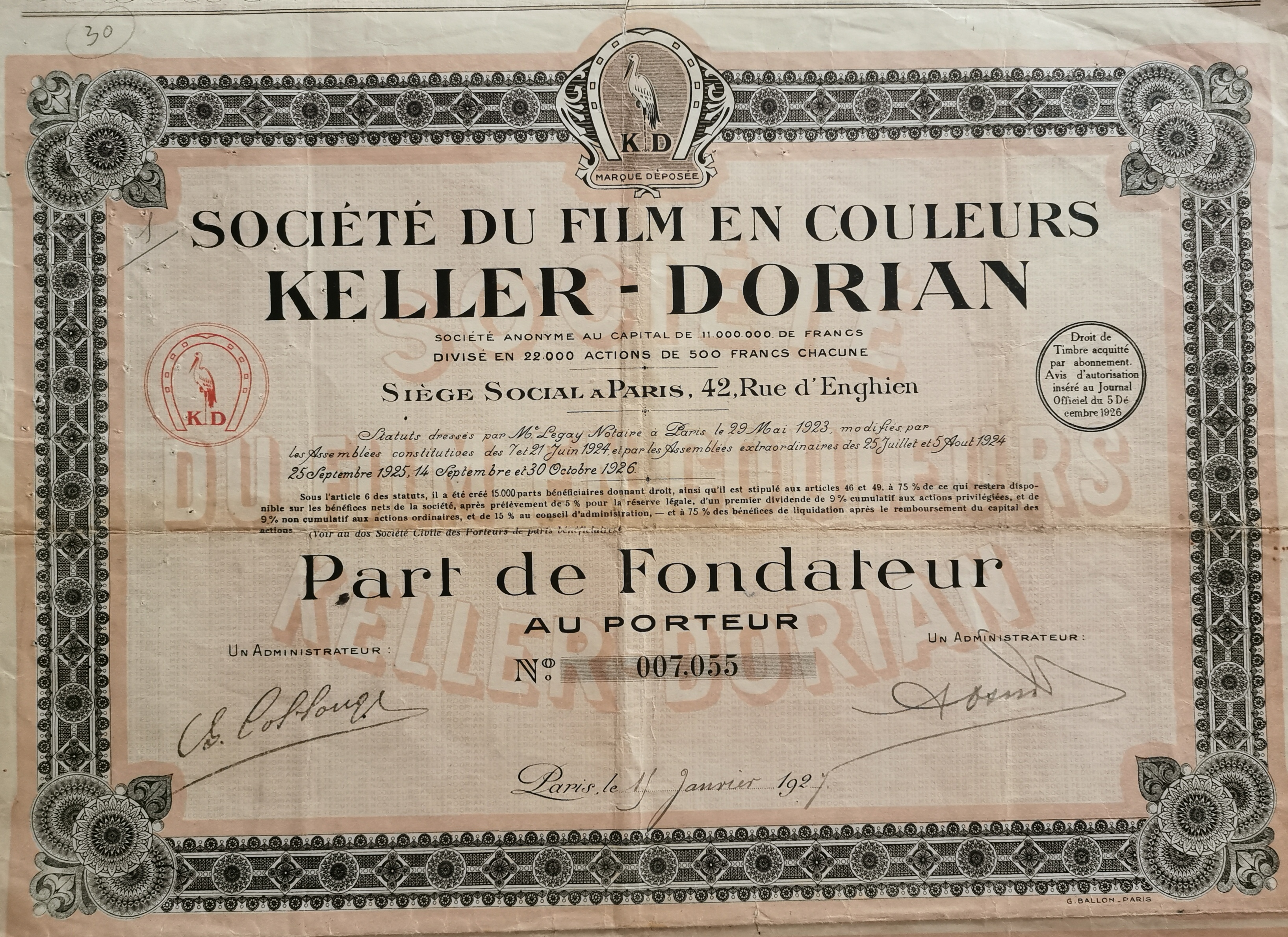 Société du Film en Couleurs Keller-Dorian, share certificate issued 15. January 1927.